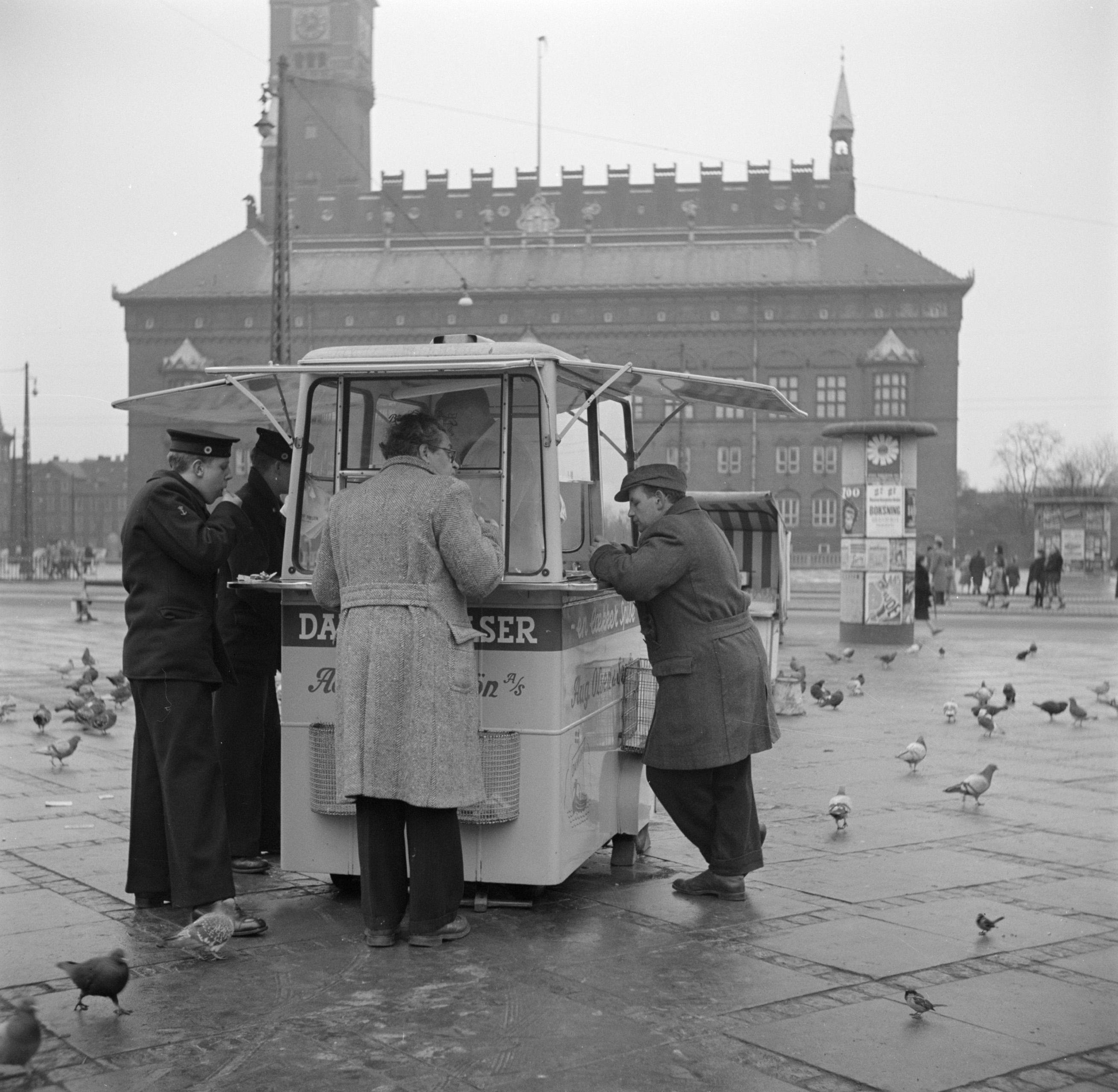 People eating at a kiosk with the town hall in the background